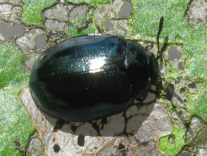 Imported Willow Leaf Beetle, Plagiodera versicolora, on cottonwood. Briar Bush Nature Center, Montgomery County, Pennsylvania, USA. 40.1228° N, 75.1281° W.